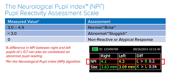 NeurOptics, Inc. NPi Scale Screenshot